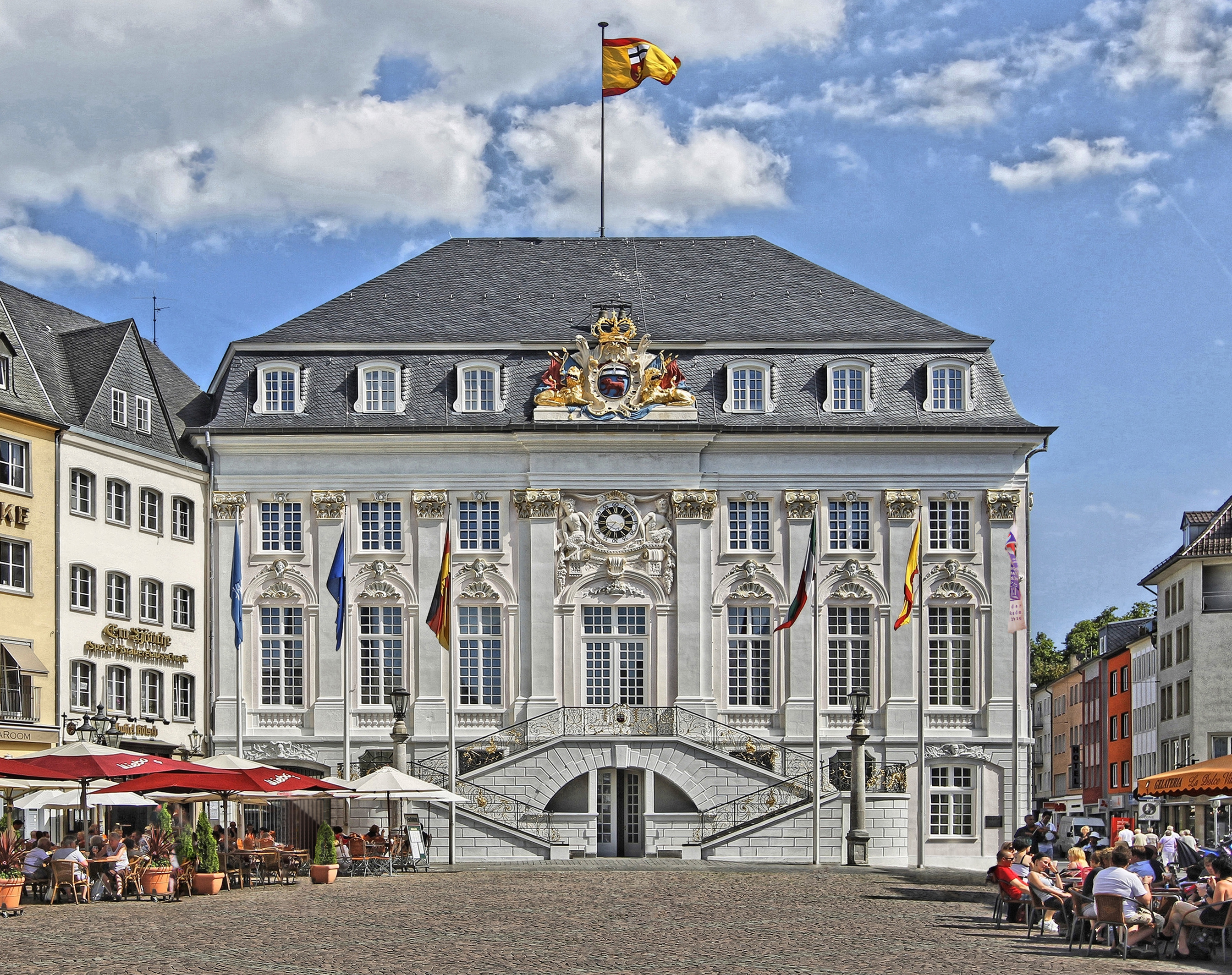 Bonn (Germany) - Old Town Hall at market place